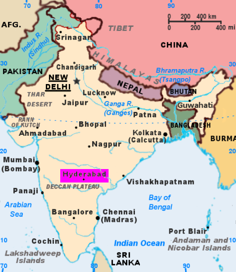 Location of Hyderabad, India